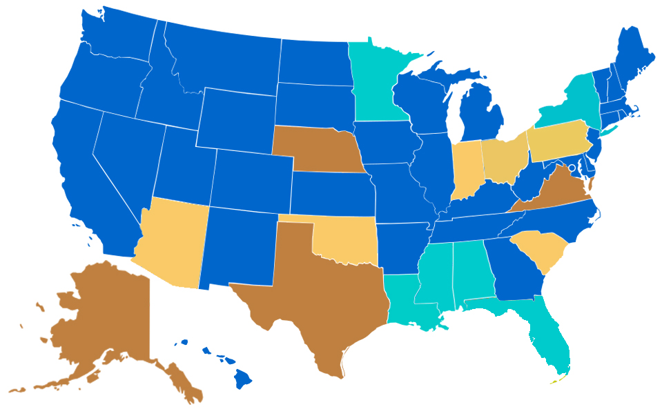 map of US Common Core implementation and repeal